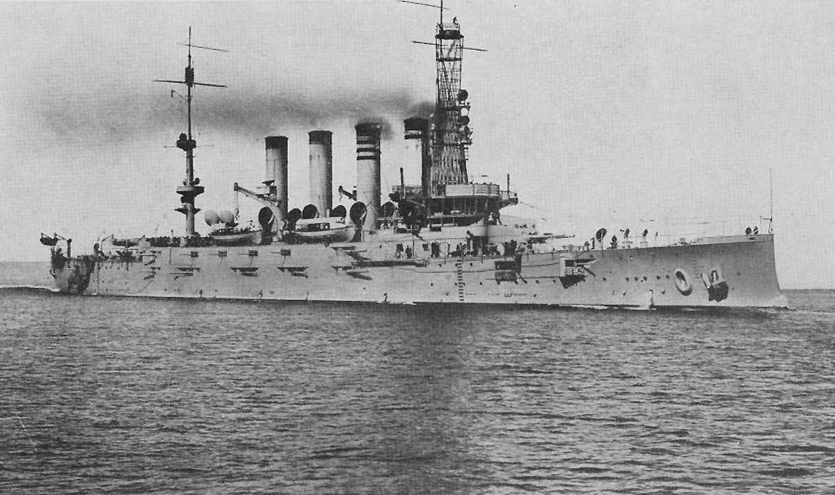 USS Montana.